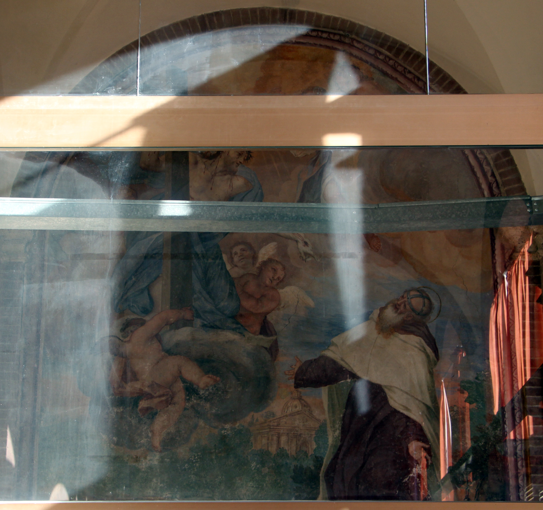 San Niccolò del Carmine (Siena) - Cloister